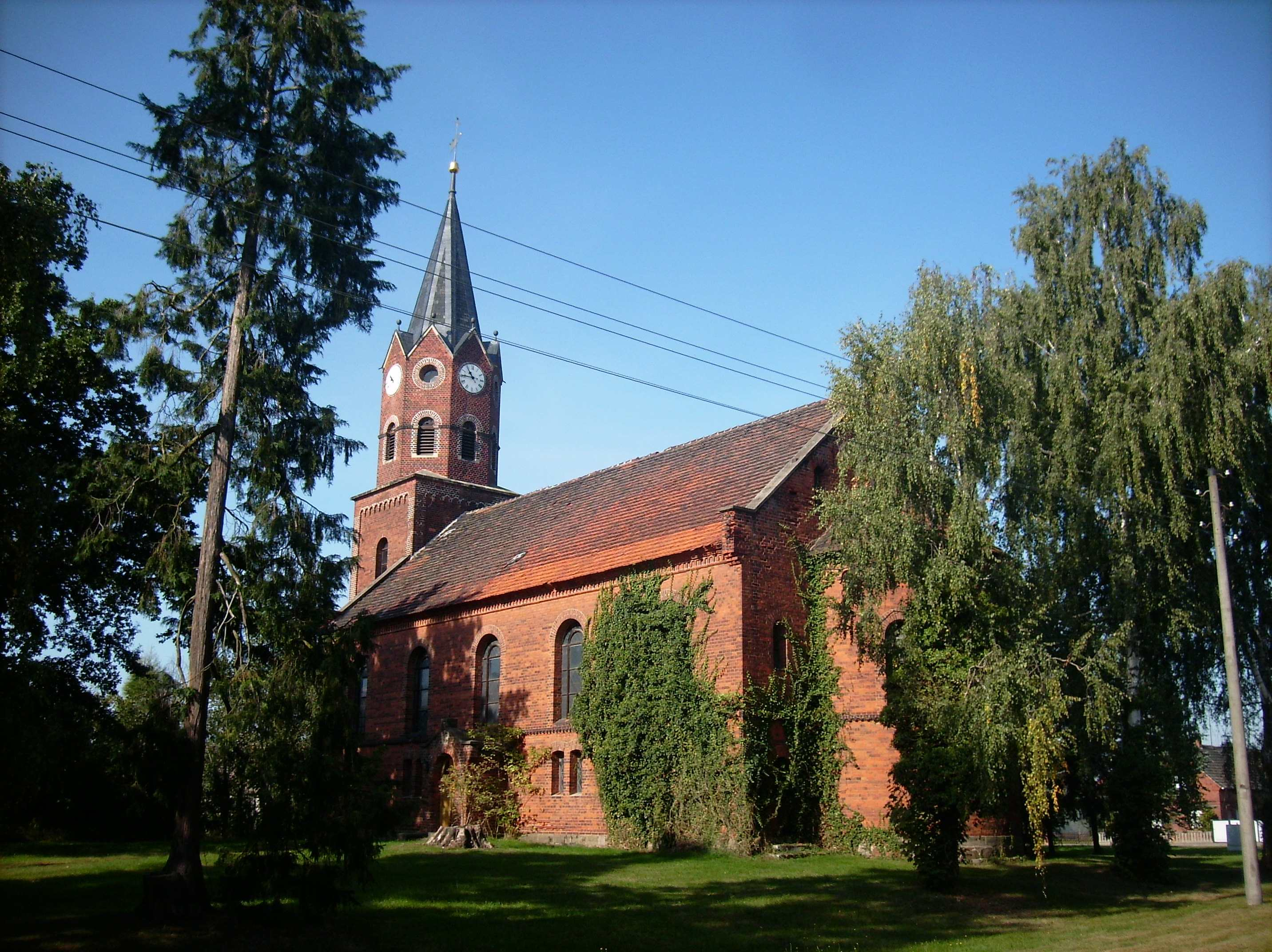 Church of the village of Buckau (Herzberg/Elster, Elbe-Elster district, Brandenburg)